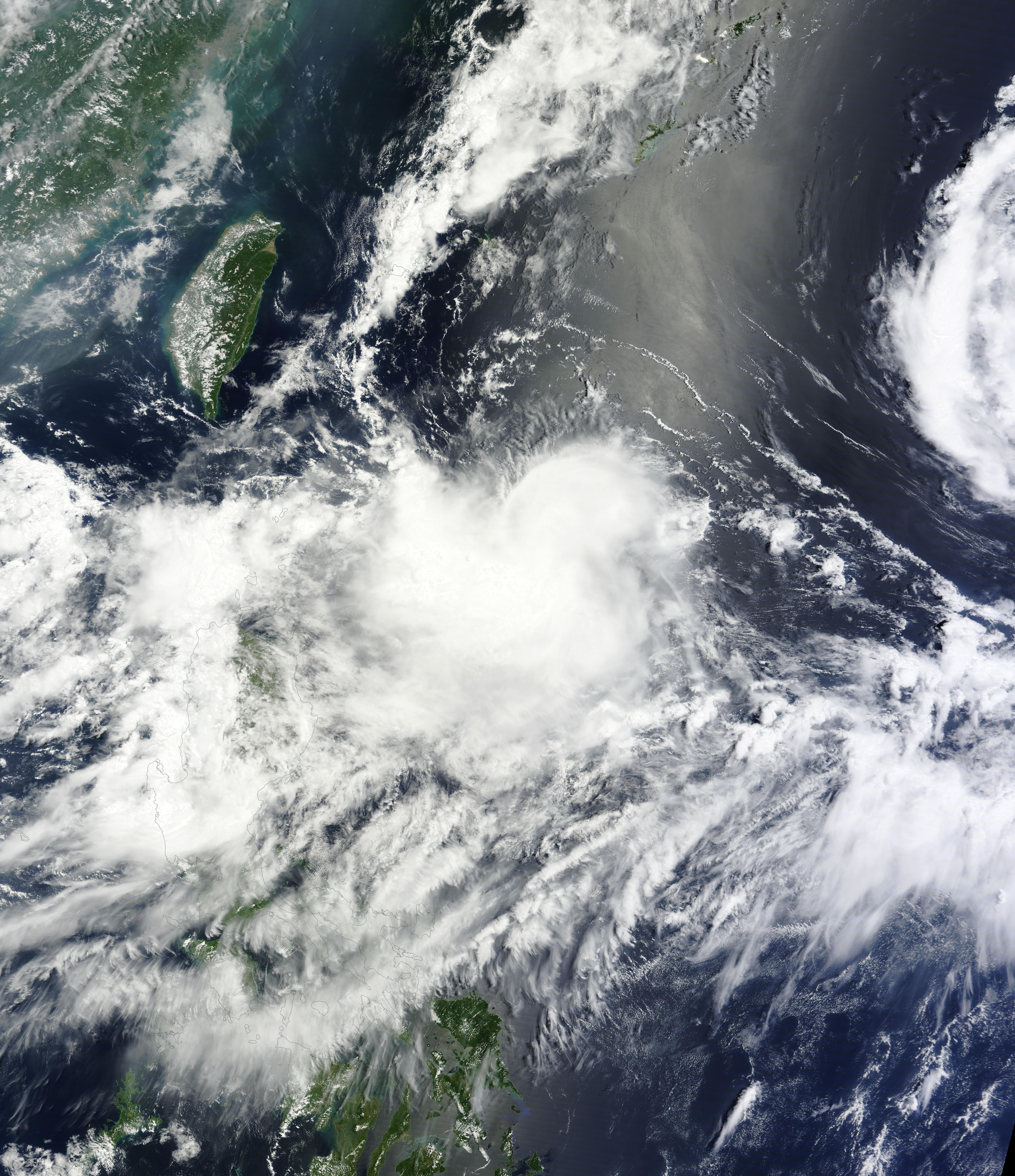 A newly-formed tropical depression east-northeast of the Philippines on July 14, 2015